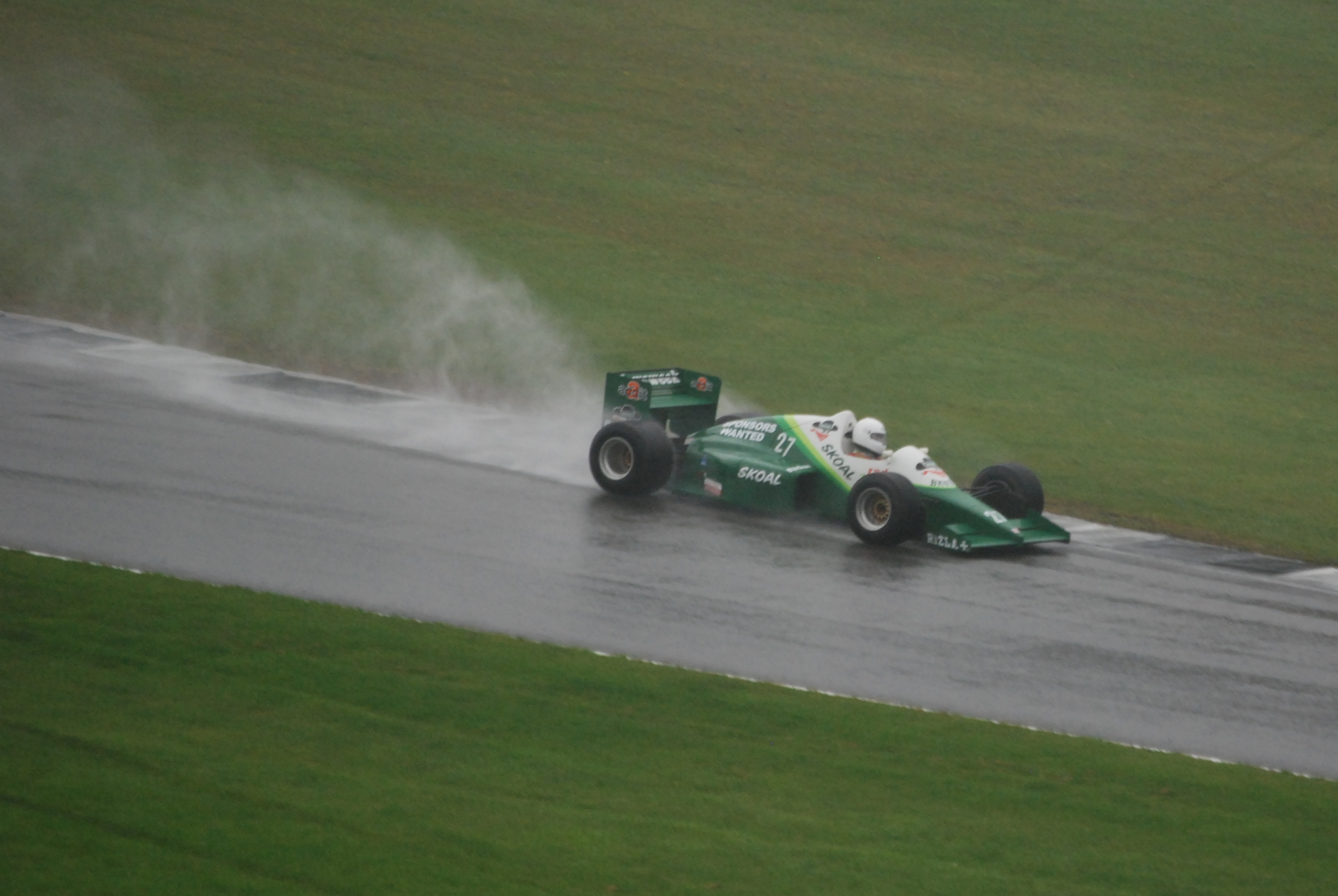 The RAM 03 being demonstrated in 2008.